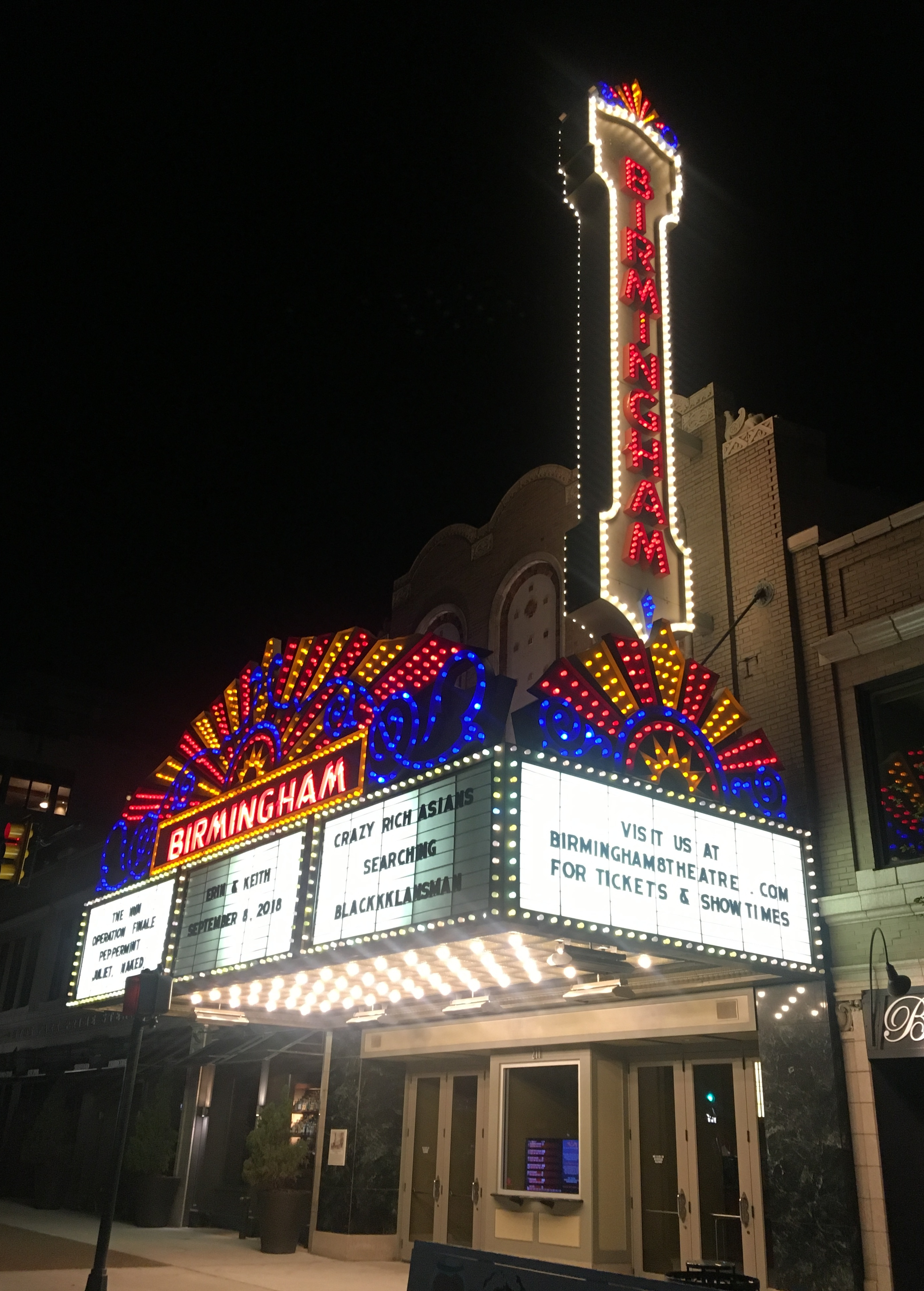 The Birmingham 8 Theatre at night.